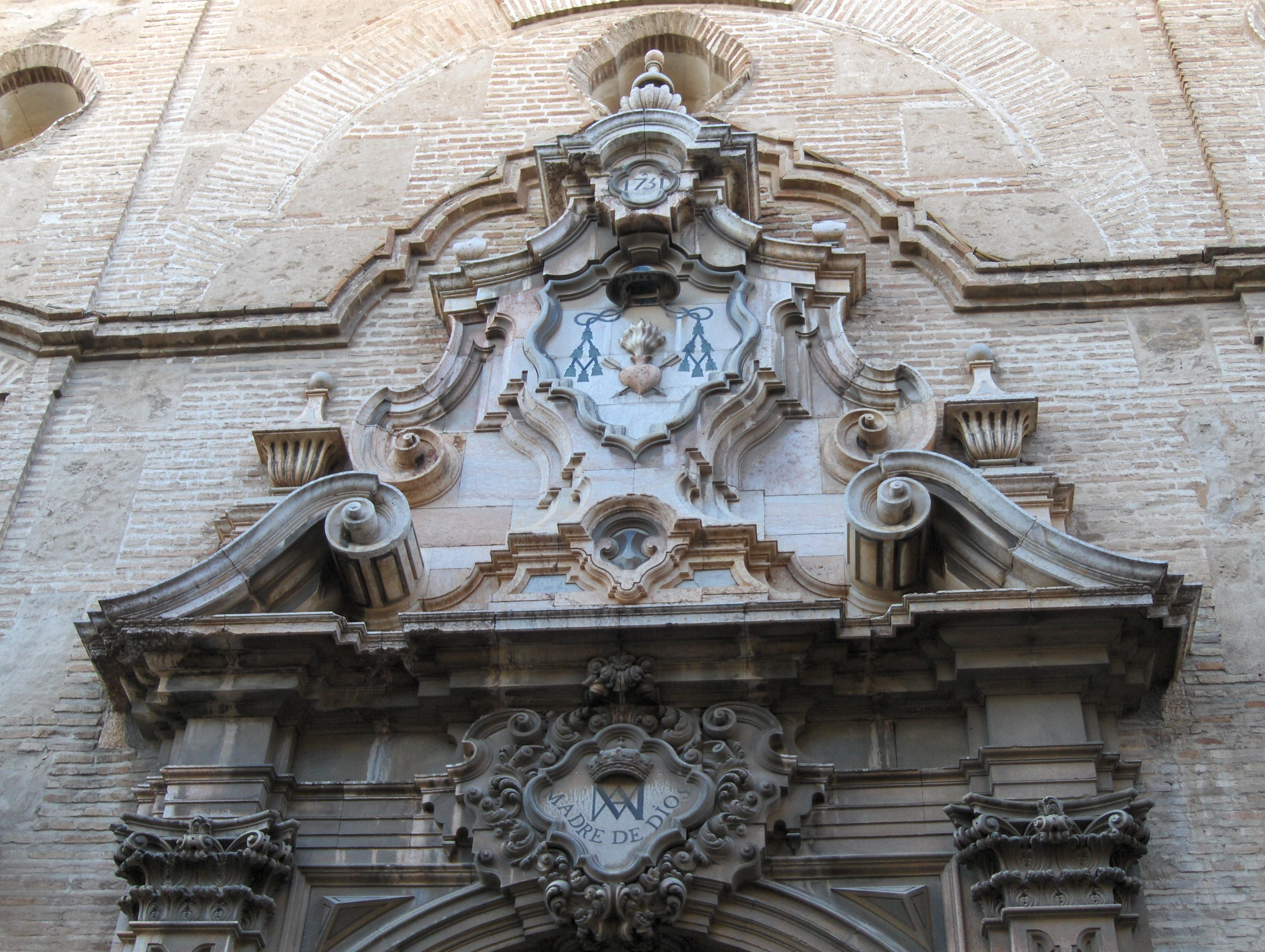 Detail of the Convent of Madre de Dios de Monteagudo, Antequera, Spain